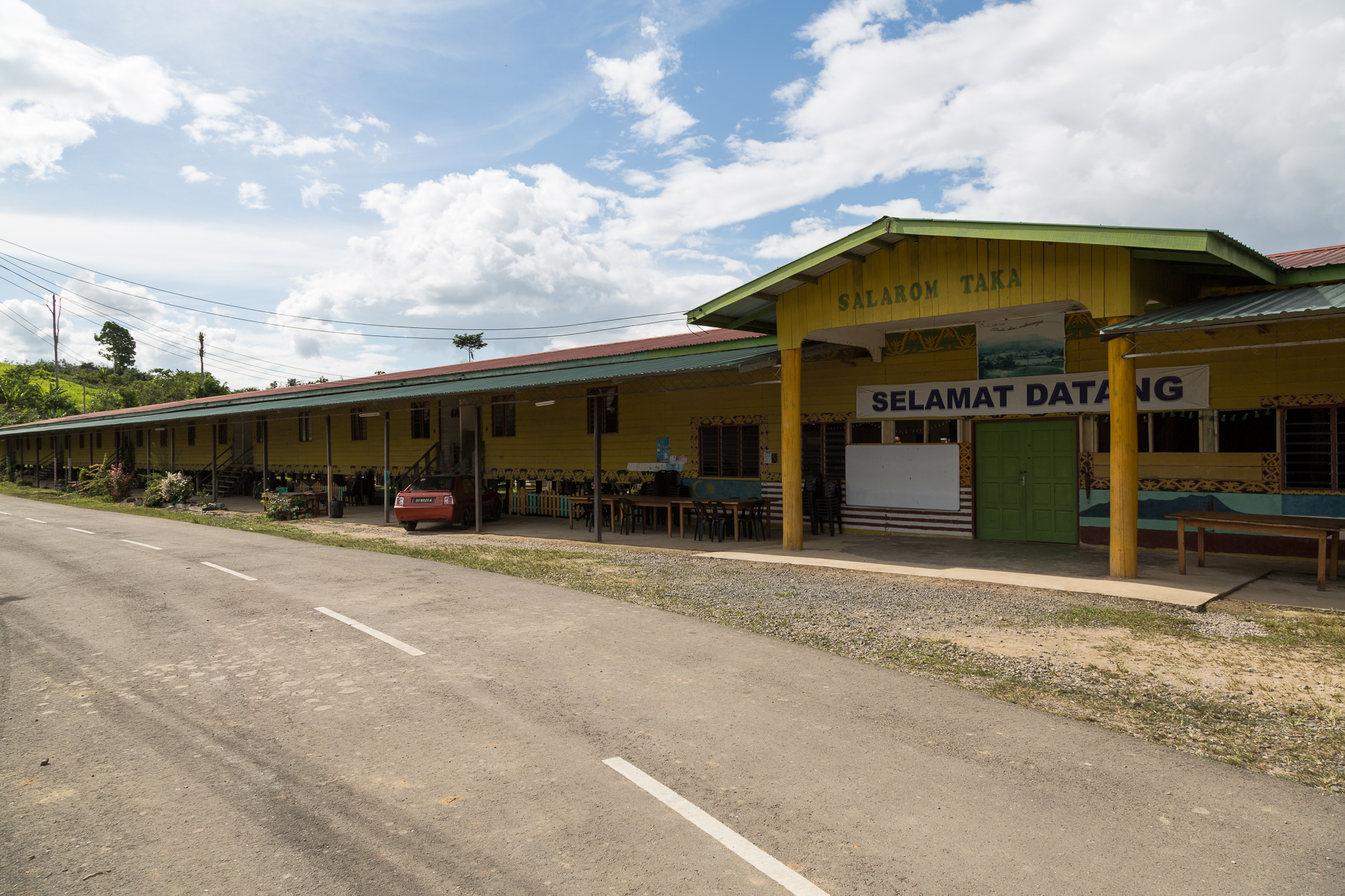 Kg. Salarom, Sapulut, Sabah: Longhouse